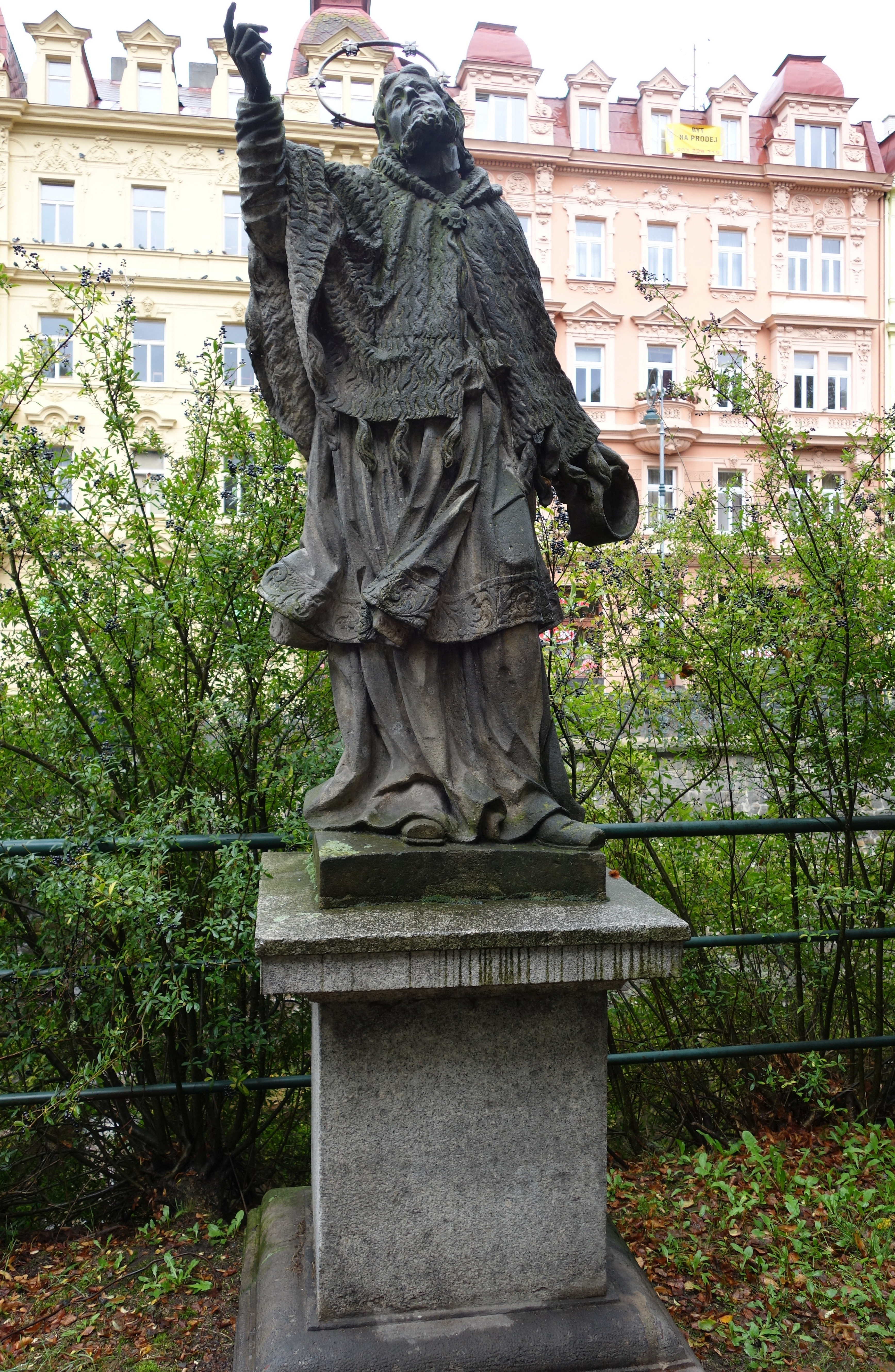 Statue of John of Nepomuk in Karlovy Vary.